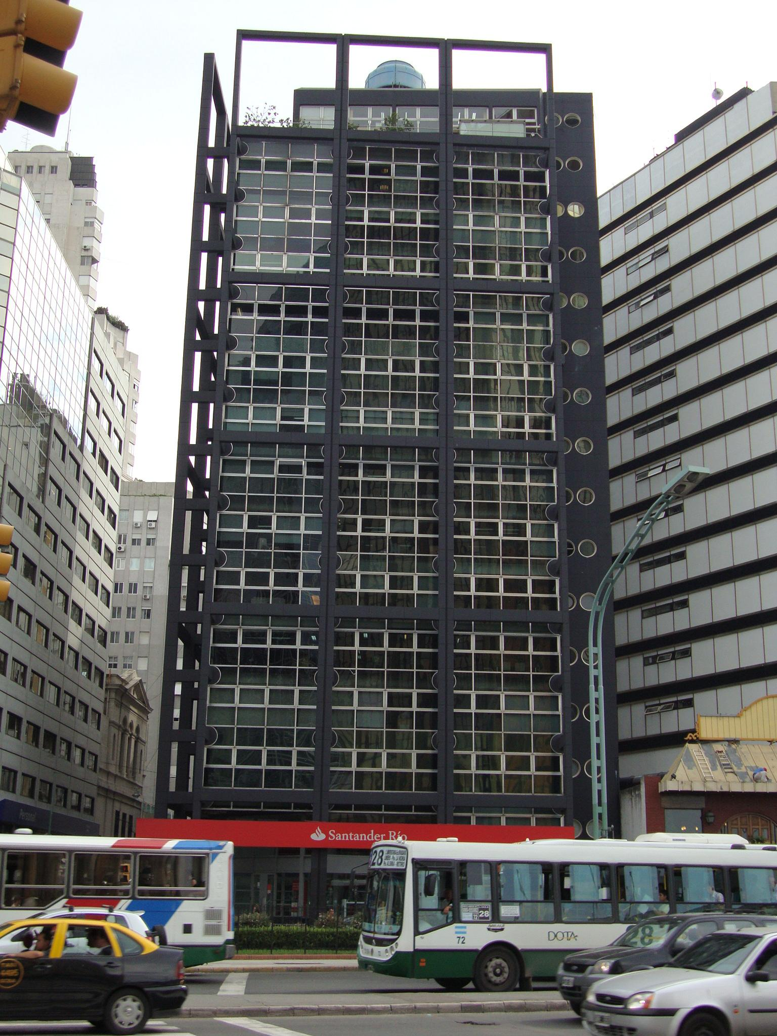 Estuary Building, designed by the architects Baudizzone, Díaz, Lestard and Varas. 1104 Reconquista st. Retiro, Buenos Aires, Argentina.